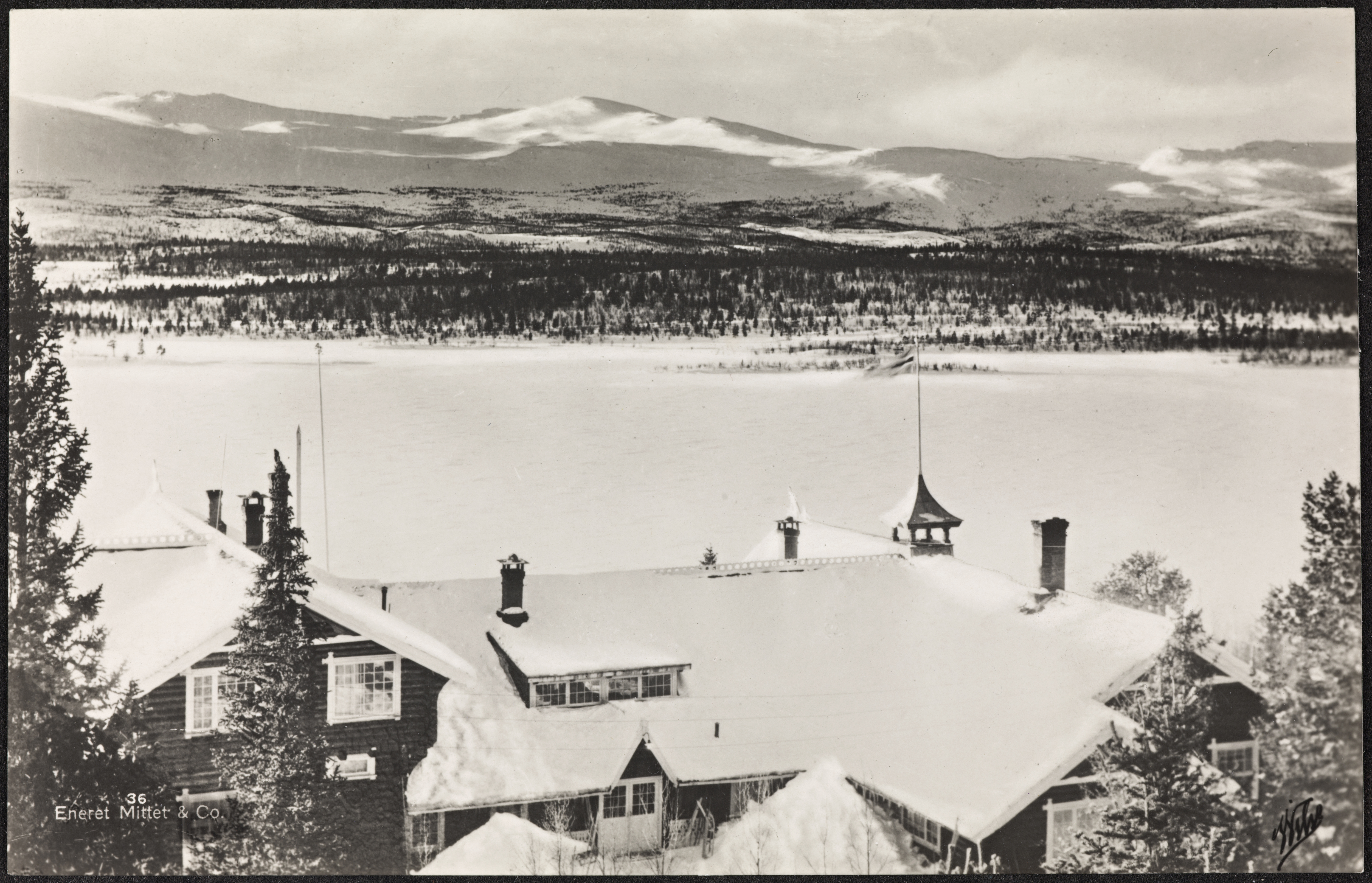 Beskrivelse / Description: Fefor høyfjellshotell, grunnlagt som høyfjellssanatorium 1891, ble 1905 landets første høyfjellshotell for vinterturisme (kilde: snl.no). Dato / Date: 25. januar 1924 Sted / Place: Oppland, Nord-Fron, Fefor Fotograf / Photographer: Anders Beer Wilse (1865-1949) Utgiver / Publisher: Mittet & Co. Digital kopi av original / Digital copy of original: s/h postkort, sølvgelatin Eier / Owner Institution: Nasjonalbiblioteket / National Library of Norway Lenke / Link: Bildesignatur / Image Number: blds_07207